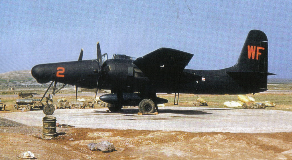 A Grumman F7F-3N Tigercat night fighter of Marine night fighter squadron VMF(N)-513 Flying Nightmares at Wonsan, Korea, in 1952.